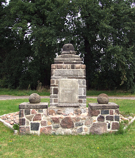 war memorial in Reckahn